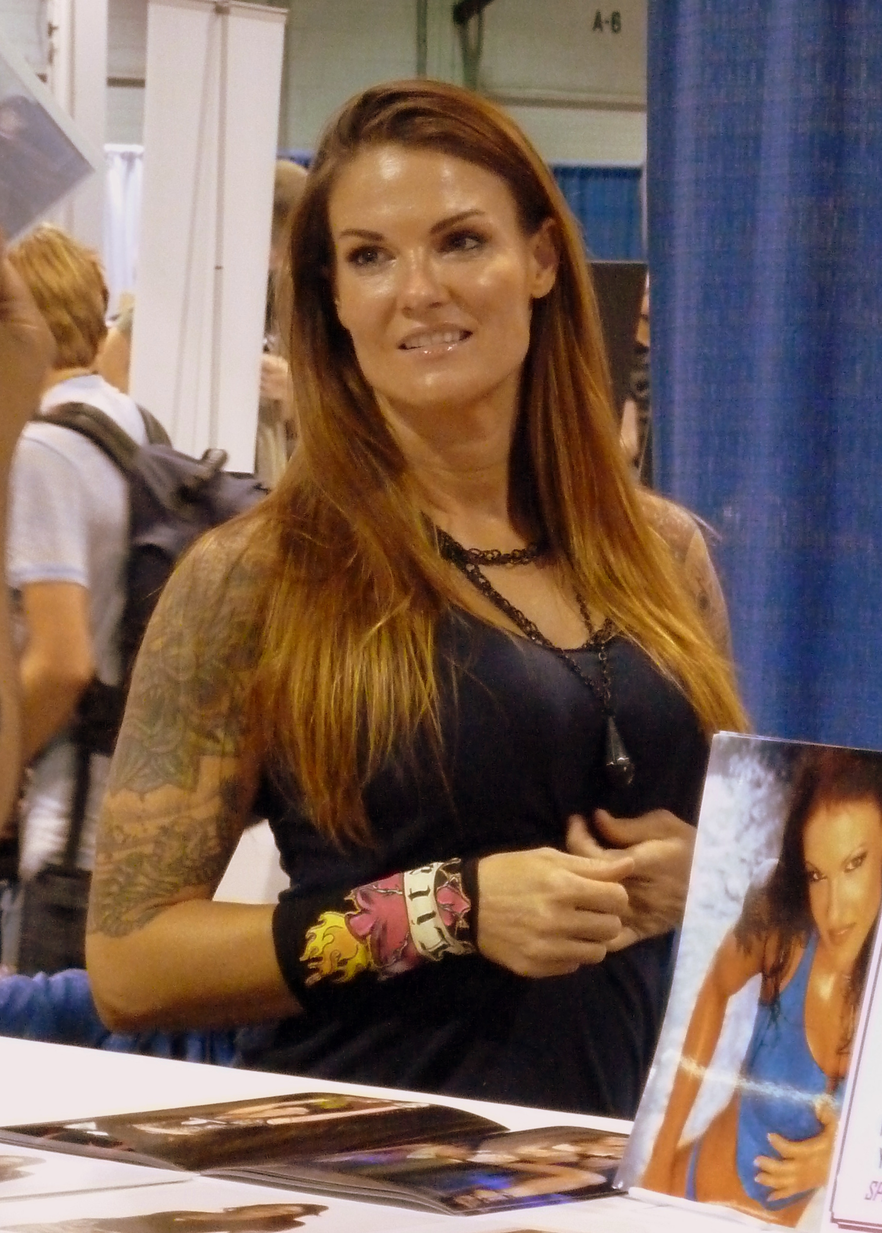 Also known as Lita in WWE world